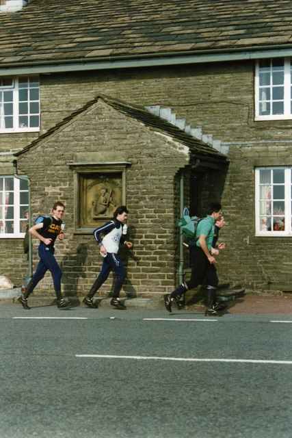 Cat and Fiddle Inn, Four Inns Walk, 1988 It appears to be a sunny Spring day in the Peak District. The Four Inns "Walk" was a competition run by the Derbyshire Scouts. This was my brother's team.